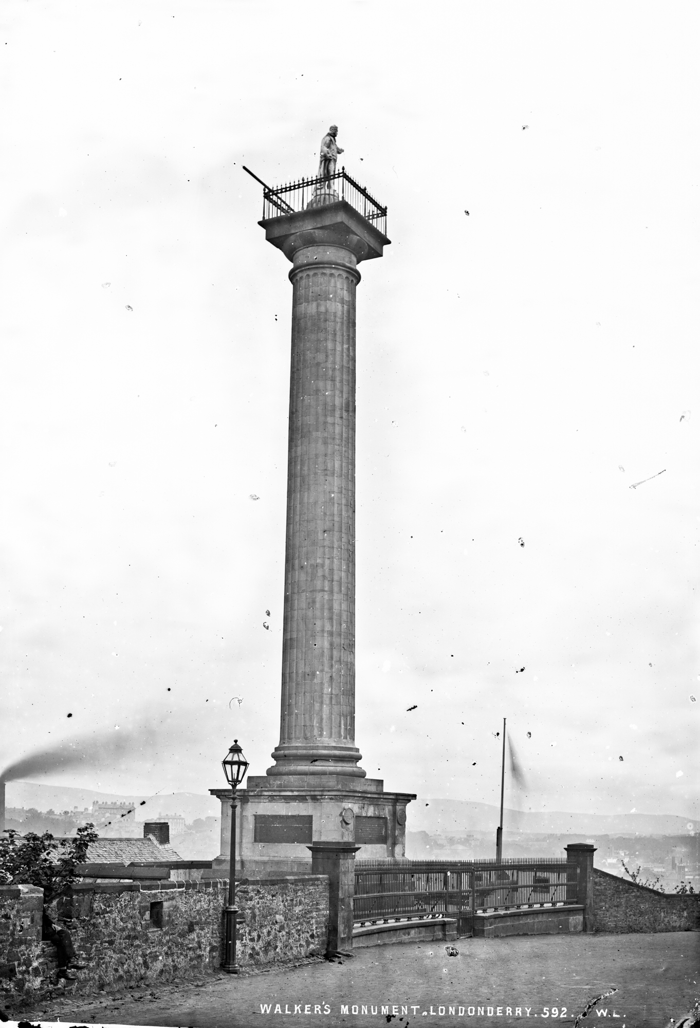 From one city of 5 sieges to a city of "The Great Siege" at the other end of the island. With thanks to today's contributors, we learned that this is indeed Walker's Monument/Column, now (given what remains) known as Walker's Memorial Plinth. Built in the 1820s, this was a memorial to George Walker, who was a governor during the Siege of Derry in 1689. Originally 90 feet in height and capped by statue of Walker, not unlike Nelson's Pillar in Dublin, it had an internal staircase and viewing platform. Also similar to Nelson's Pillar however, it was destroyed in an explosion - although the remains of the statue were removed and partially survive elsewhere. With thanks in particular to [/photos/gnmcauley/ Niall McAuley] for today's inputs, it's suggested that the image may date from the early 20th rather than late 19th century - given that we can't see the original sword in the statue's hand - seemingly blown down in the early 20th century.... Photographer: Robert French Collection: Lawrence Photograph Collection Date:between ca. 1865-1914 (though possibly later in this range given statue's "missing" sword) NLI Ref: L_CAB_00592 You can also view this image, and many thousands of others, on the NLI’s catalogue at